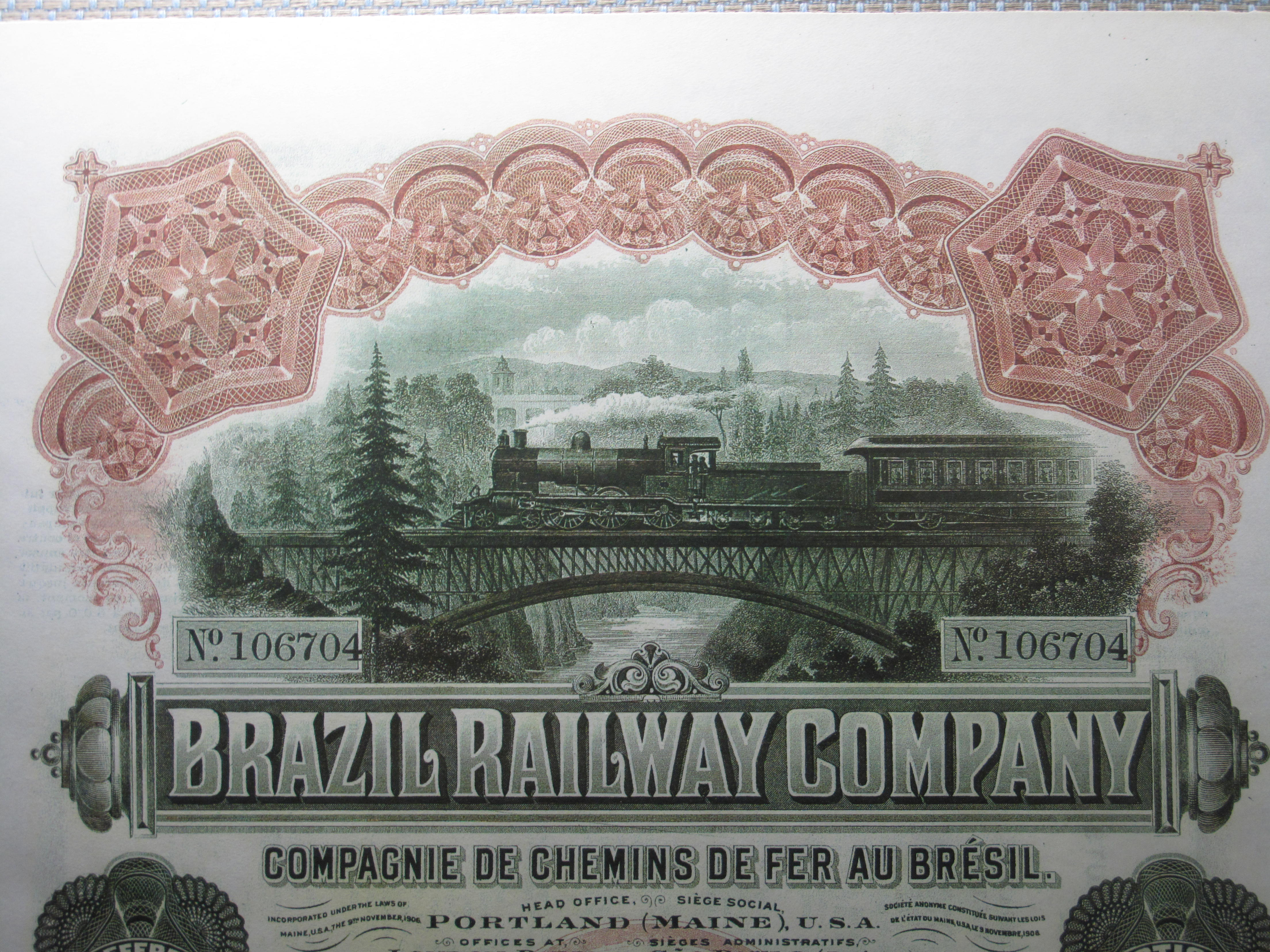 Close up of a share of Brazil Railway Company